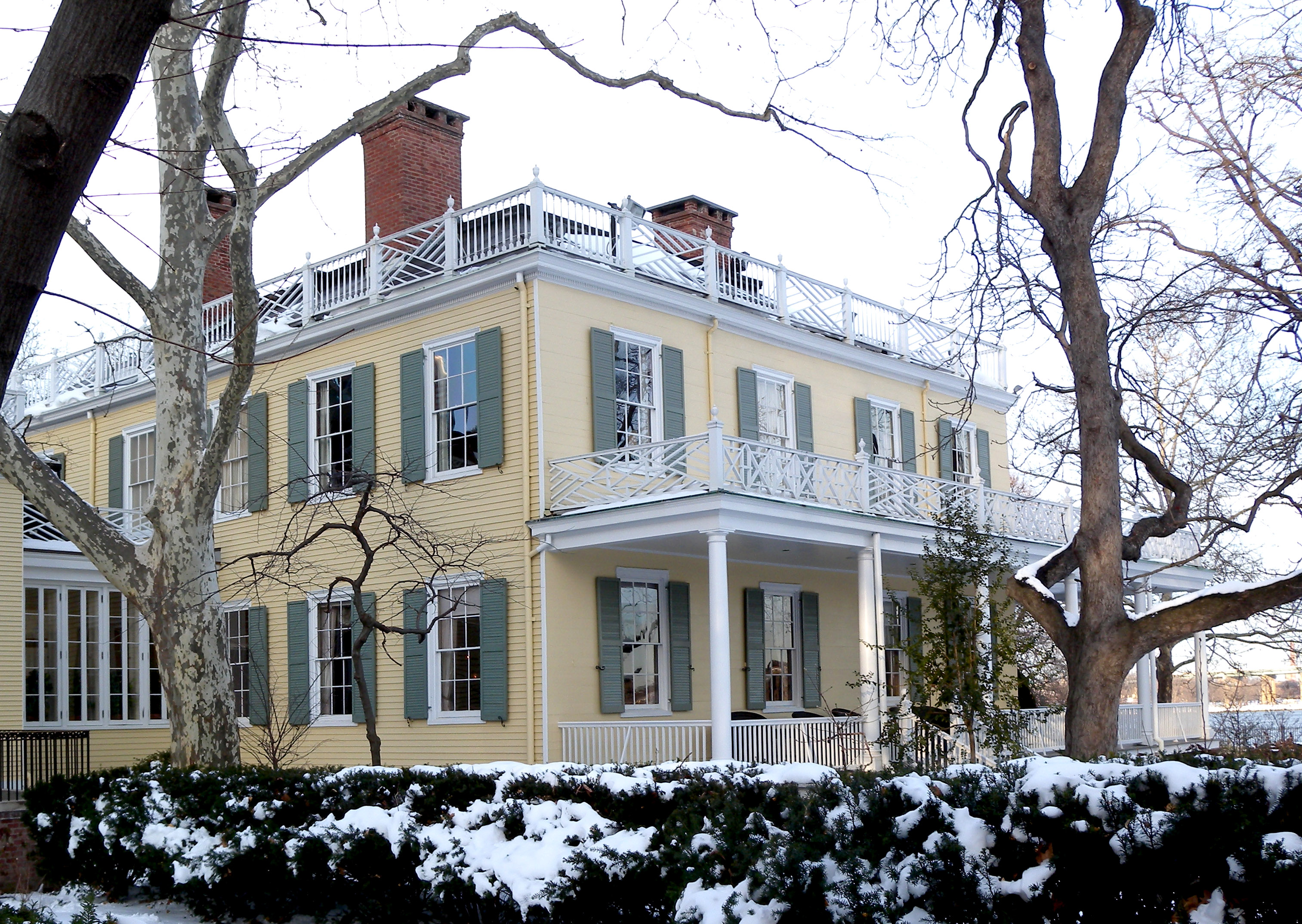 Looking northeast at southeast side of Gracie Mansion on a cloudy afternoon.